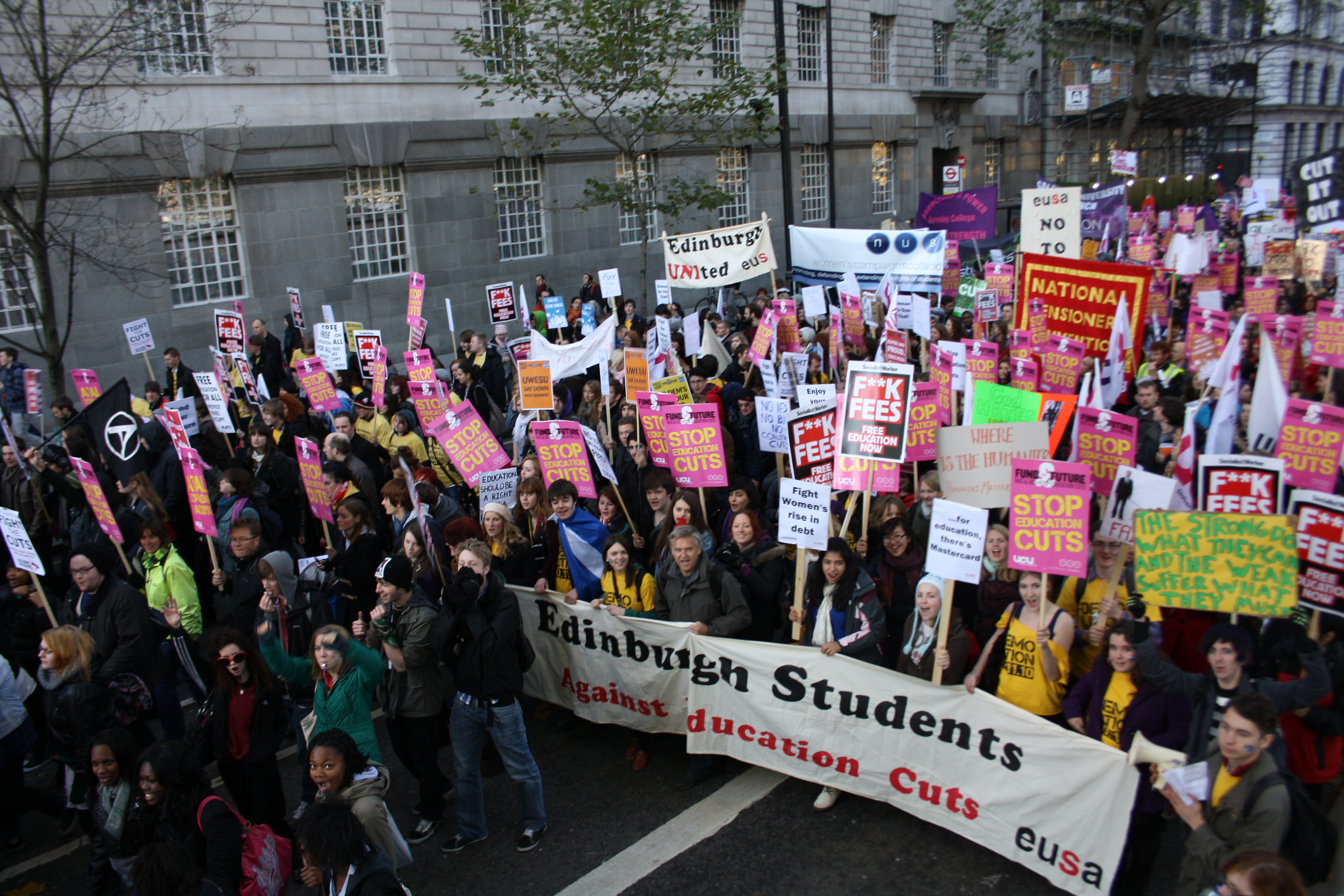 Edinburgh University students march through Westminster, London as part of the 10 November 2010 protest against tuition fees and education cuts. The banner is represents Edinburgh University Students' Association (EUSA), the university's students' union, and reads 'Edinburgh Students Against Education Cuts'. Photo taken from atop bus stop.